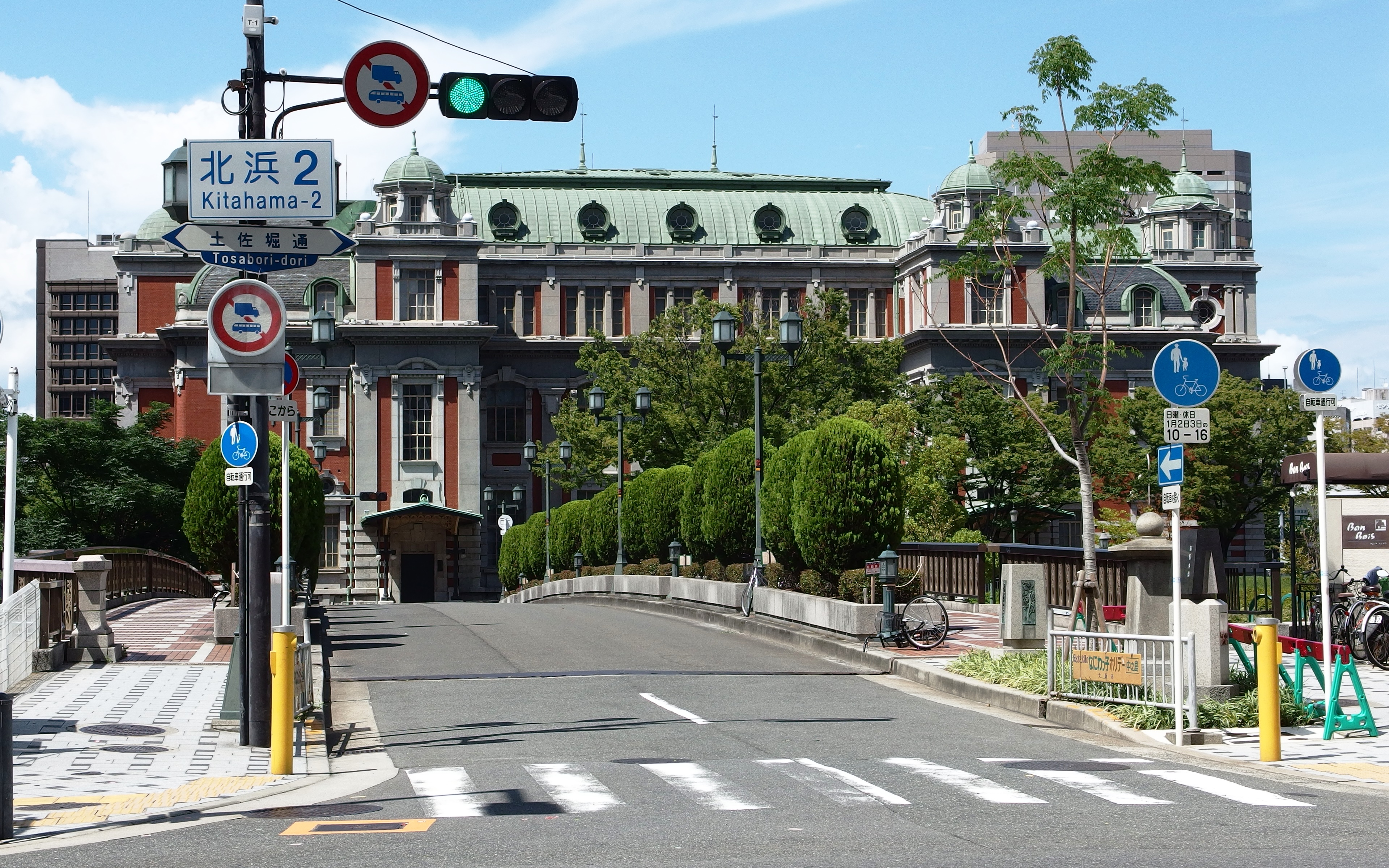 Sendannoki_Bridge, Osaka, Osaka Prefecture, Japan